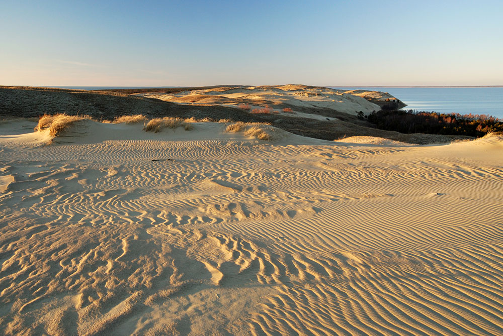 Grey dunes in Neringa